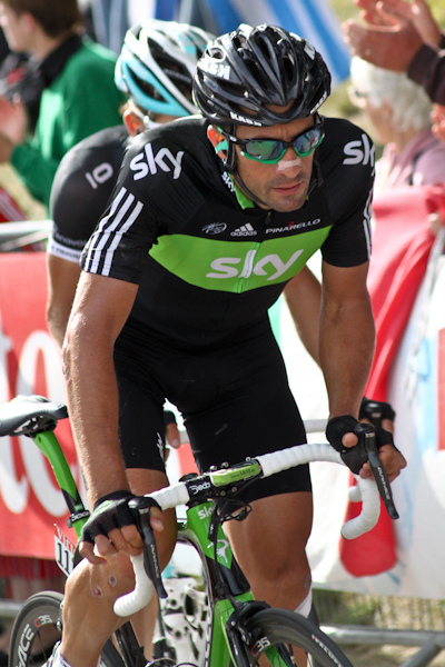 Juan Antonio Flecha during Stage 19 of the 2011 Tour de France.